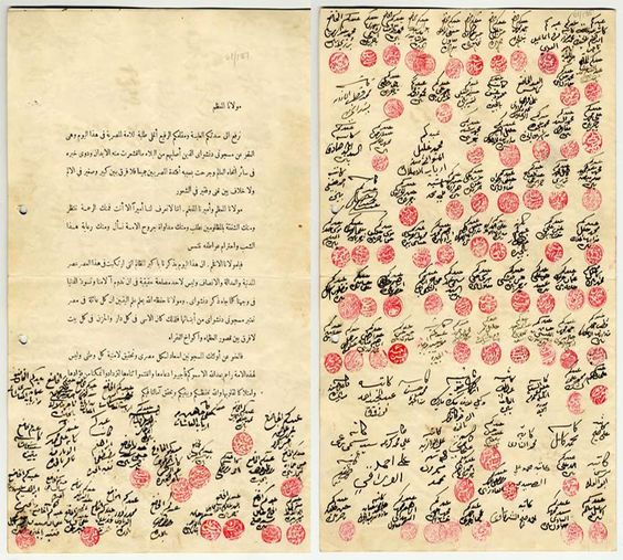 Dunshway incident prisoners appeal for forgiveness